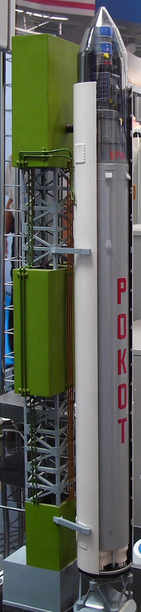 Model of Rockot showing Breeze-K third stage and multiple payload adapter, inside the cutaway white launch tube with green and grey launch structure at the 2007 Paris Air Show.